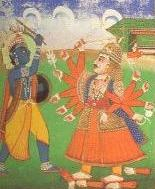 Vishnu as the incarnation Parshurama